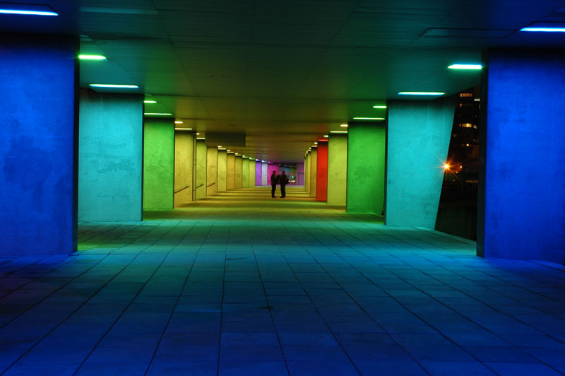 light installation by Peter Struycken, NAI, Rotterdam/The Netherlands